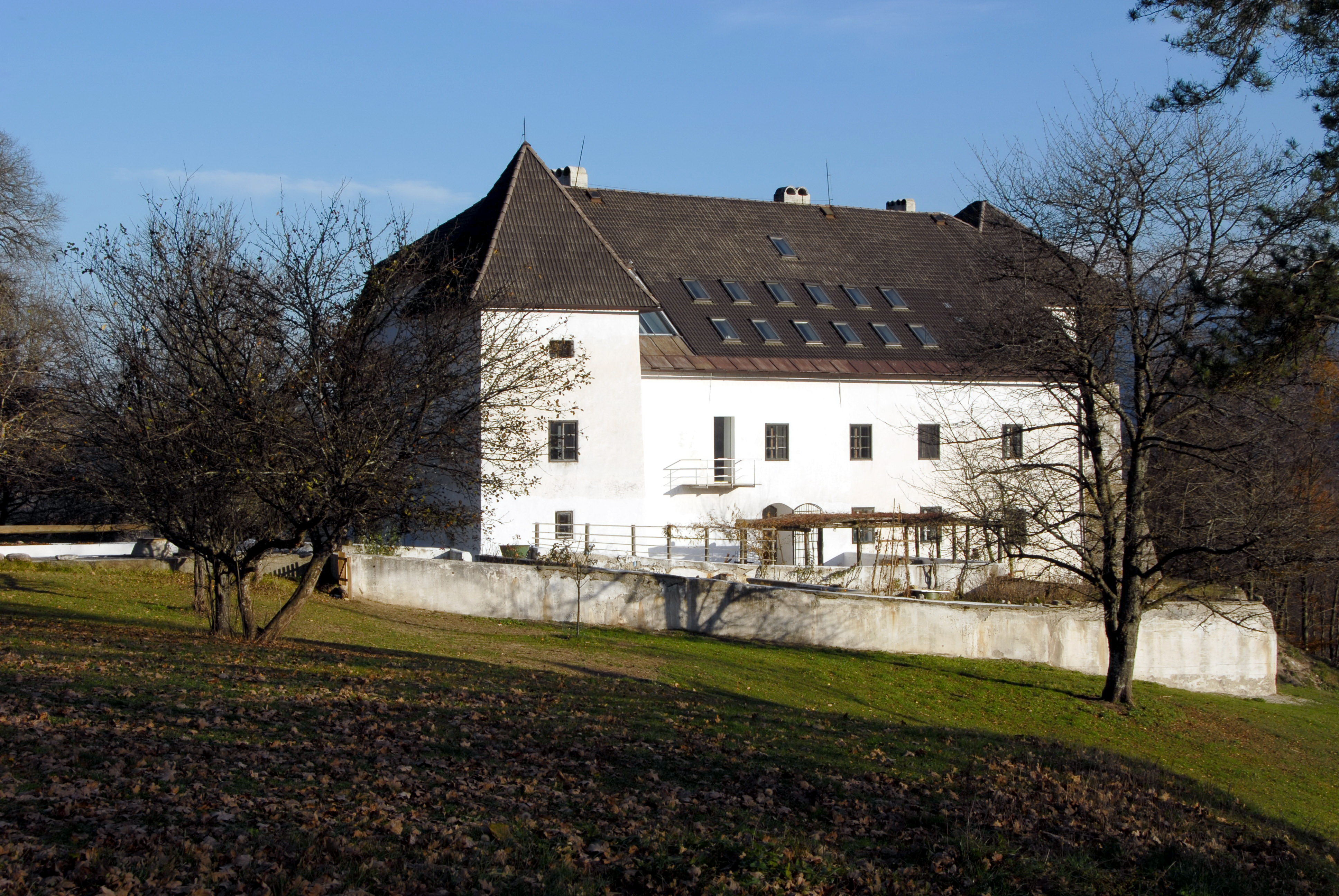 Castle Saager (propriety of the sculpturist and painter Giselbert Hoke) in the municipality Grafenstein, district Klagenfurt-Land, Carinthia, Austria